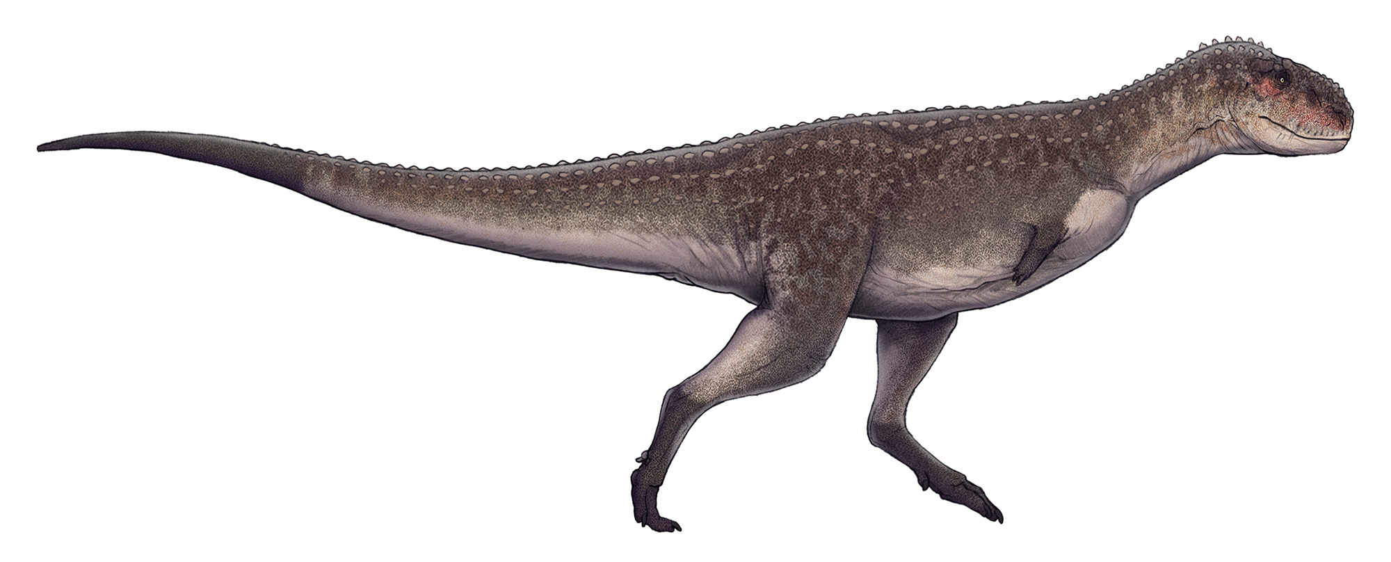 Life restoration of Viavenator exxoni